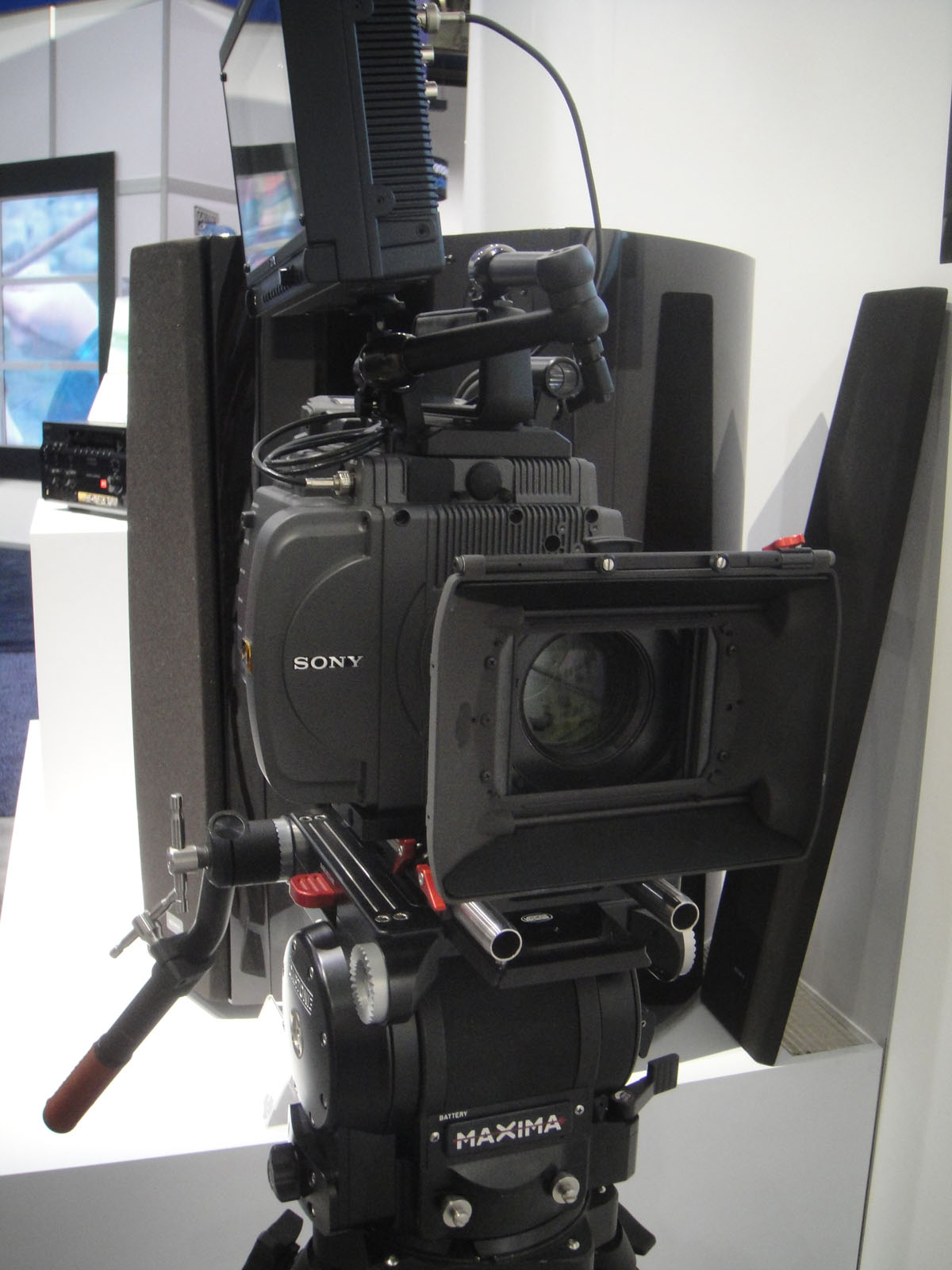 photo 2012 Pop Culture Geek taken by Doug Kline If you're interested in higher resolution versions of my images, contact me via my profile page.